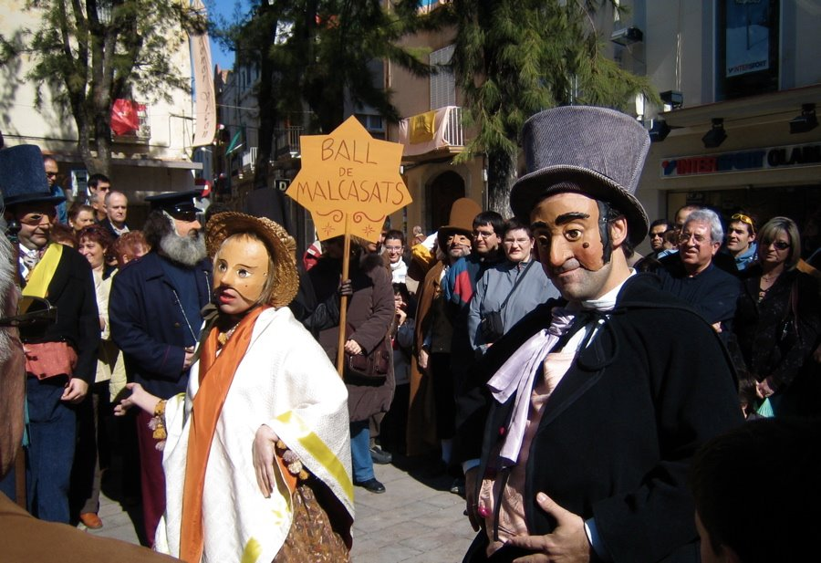 The Ball de Malcasats (Dance of the Mismatched Couples) is a satiric talking-dance traditional to Carnaval in Vilanova.